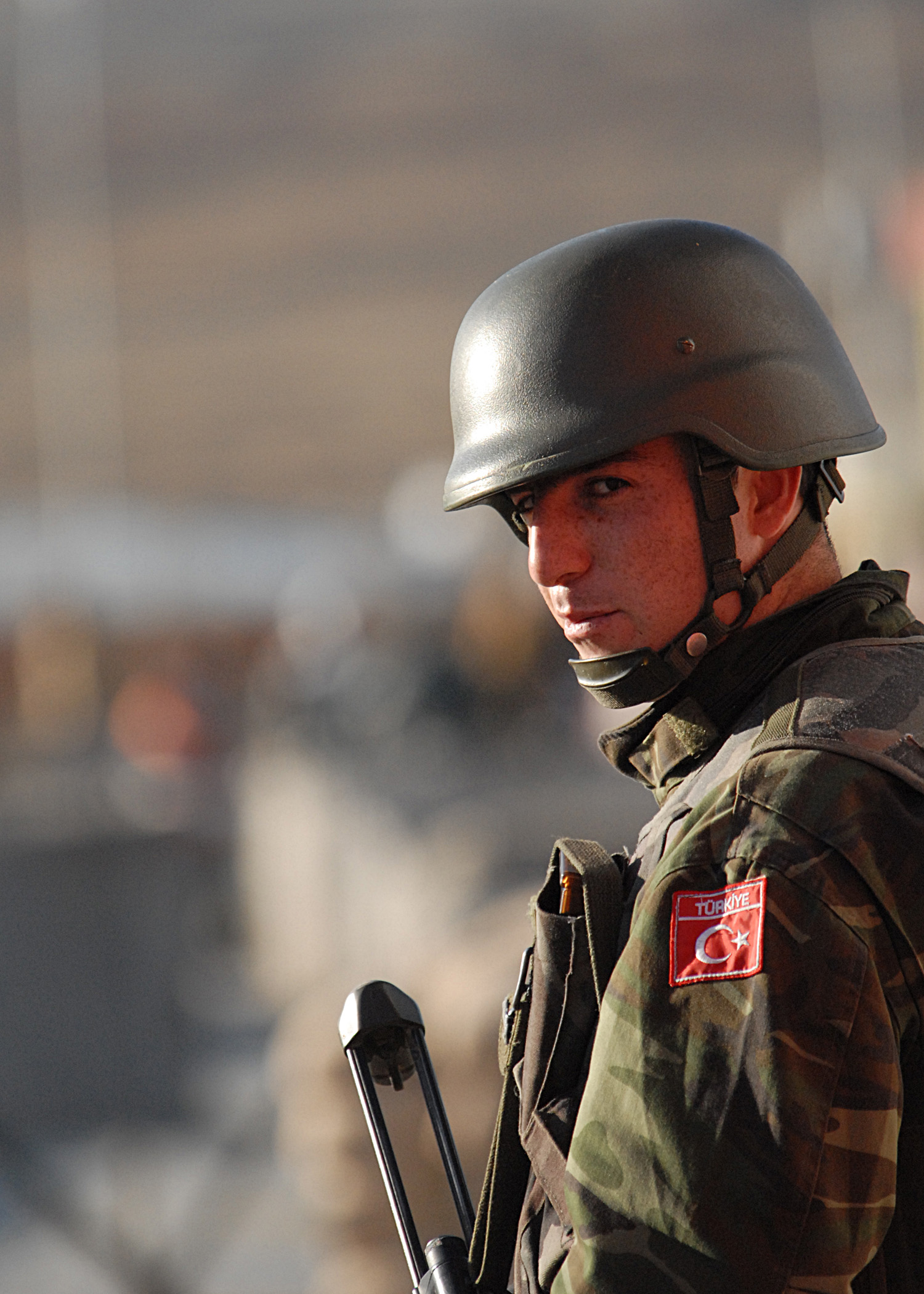 MAIDEN SHAHR, Afghanistan--A Turkish Army soldier stands watch at the main gate of the Turkish Provincial Reconstruction Team (PRT) compound on Dec. 9, 2008. The Turkish PRT is the only one of 26 throughout Afghanistan that is run solely by civilians, while the Turkish Army lends support to maintain force protection of the PRT compound. ISAF photo by U.S. Navy Petty Officer 2nd Class Aramis X. Ramirez (RELEASED)